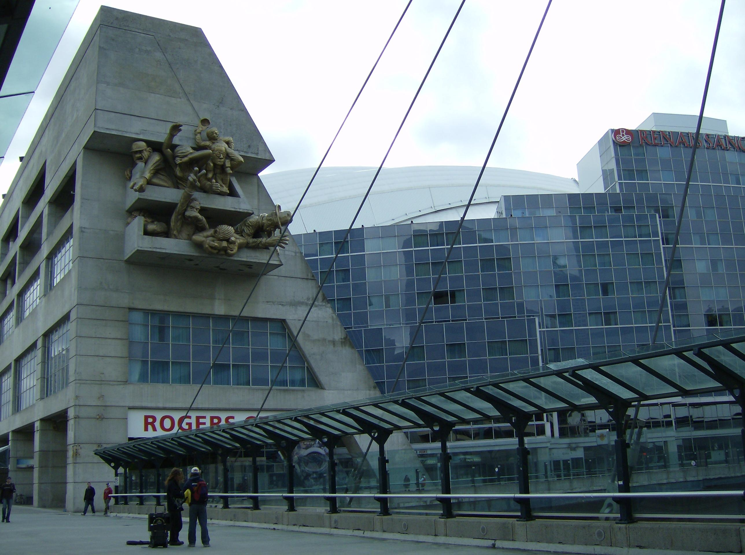 self made 16:54, 7 January 2007 . . Mikerussell . .2576 x 1920 (491,948 bytes)